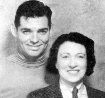 Clark Gable with Ria Langham